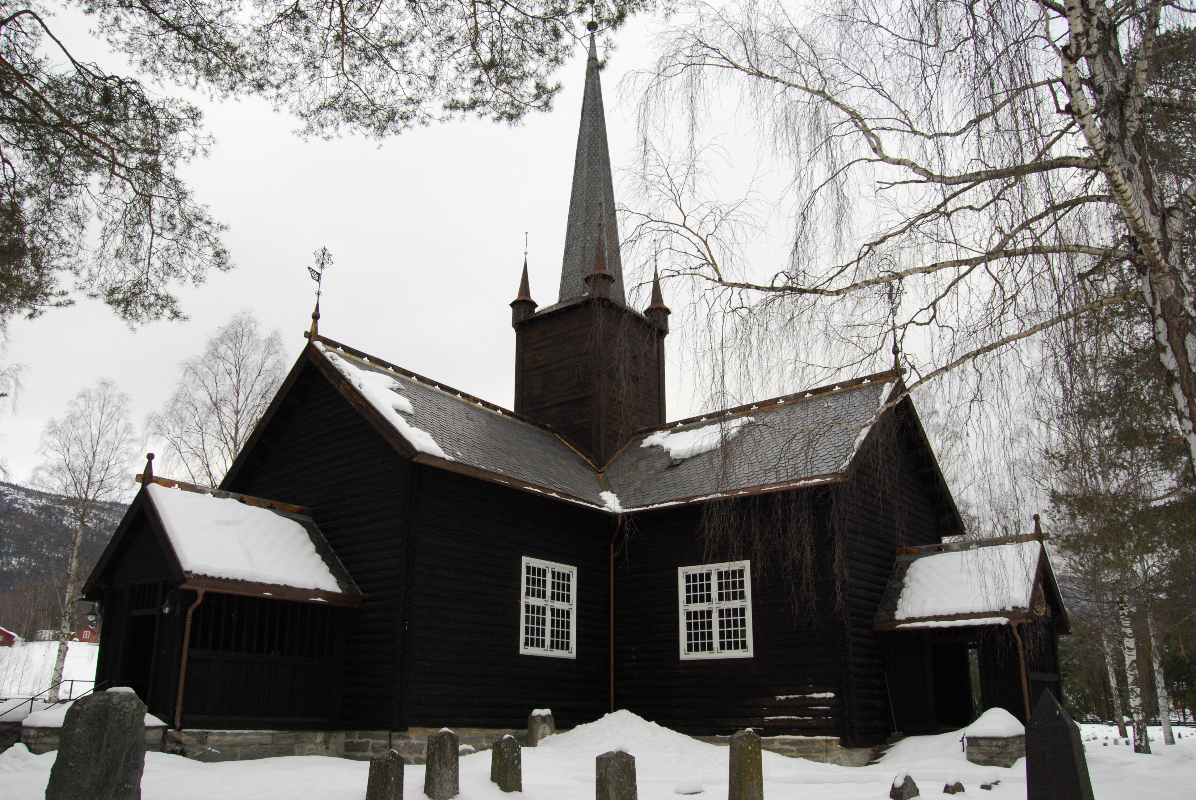 Sødorp church, Nord-Fron, Oppland, Norway.